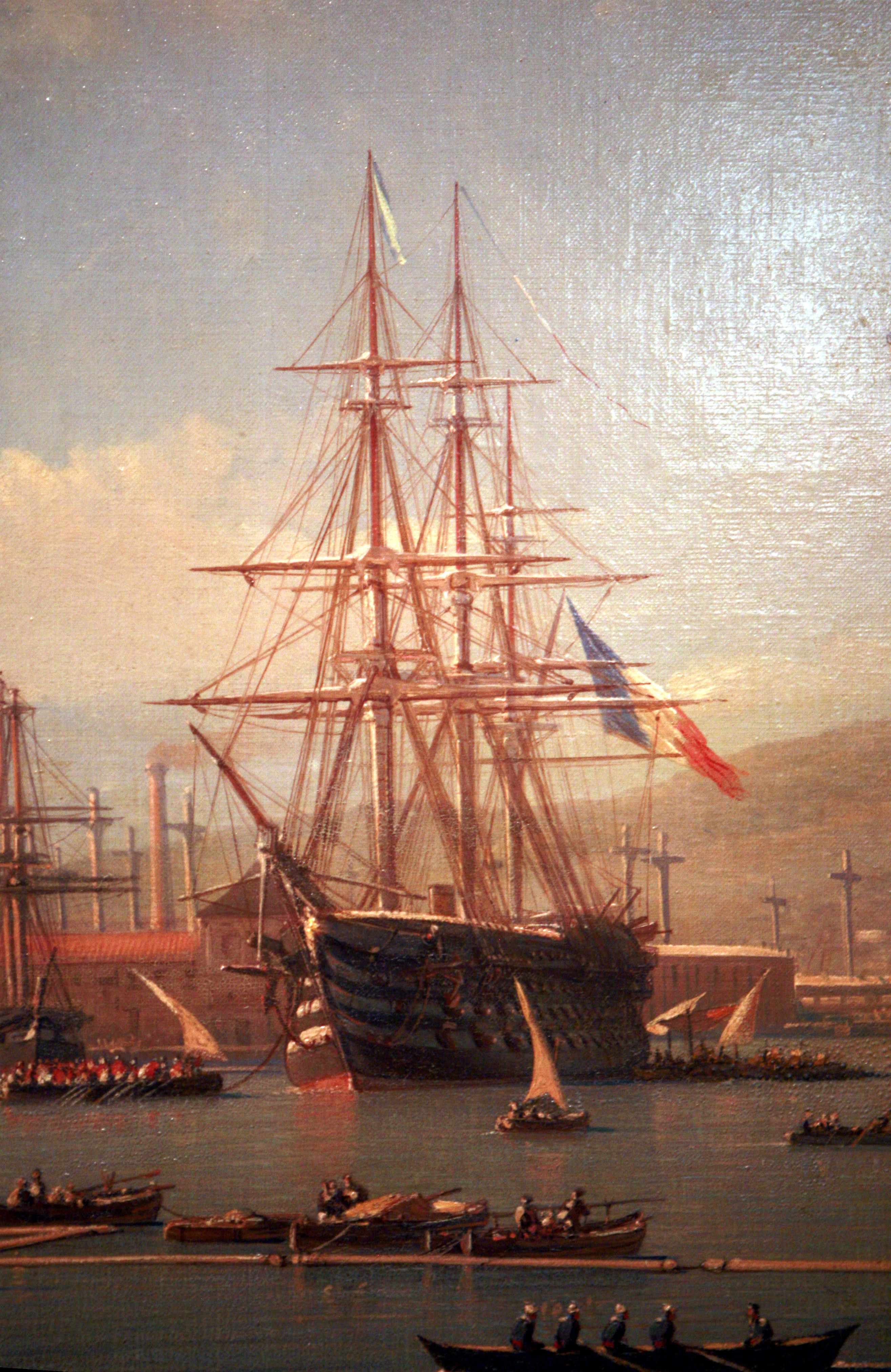 Toulon harbour (detail): a Napoléon-class ship of the line Oil on canvas. On display at Toulon naval museum. Access number 9 OA 10